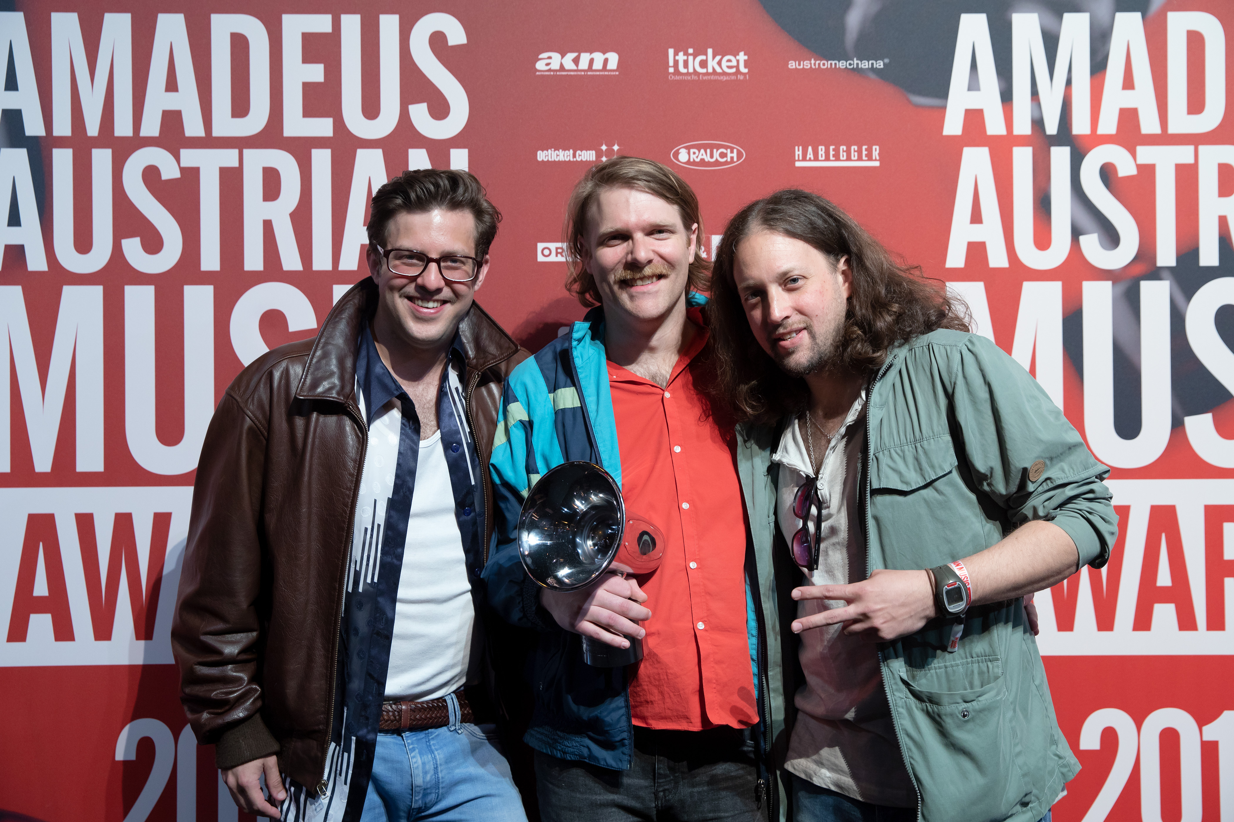 Krautschädl at the Amadeus Austrian Music Award 2019 at Volkstheater in Vienna.